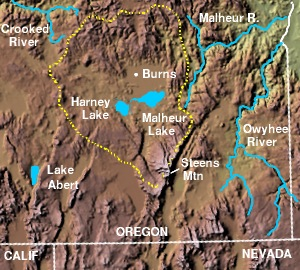 The Harney Basin — in the Great Basin region of Oregon. Harney County, southeastern Oregon. © 2004 Matthew Trump